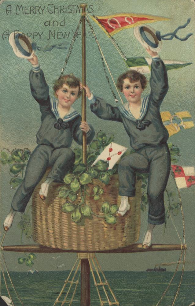 Christmas greeting card showing two boys waving from the crow's nest of a ship.